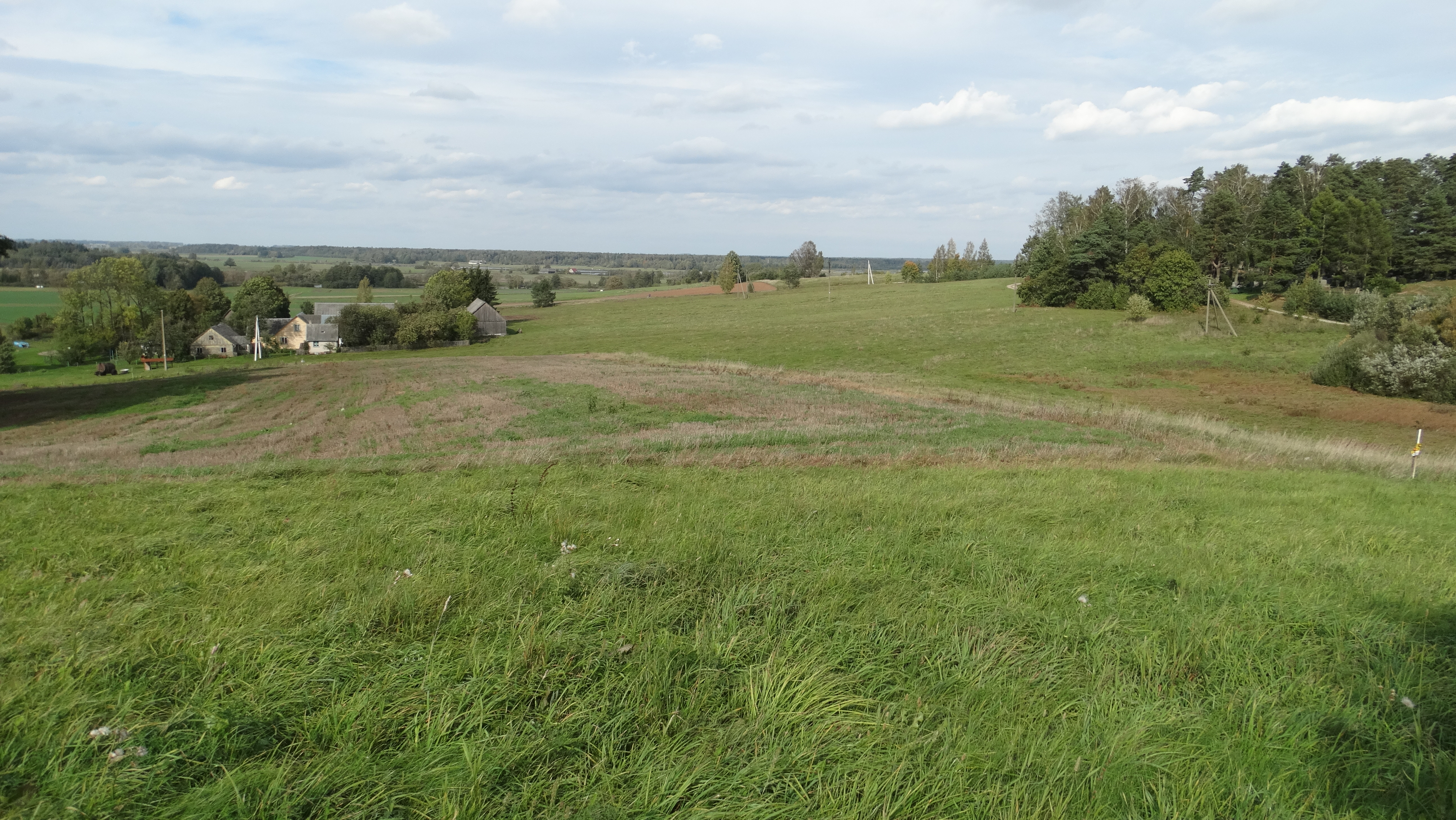 Naujasodis, Prienai district, Lithuania